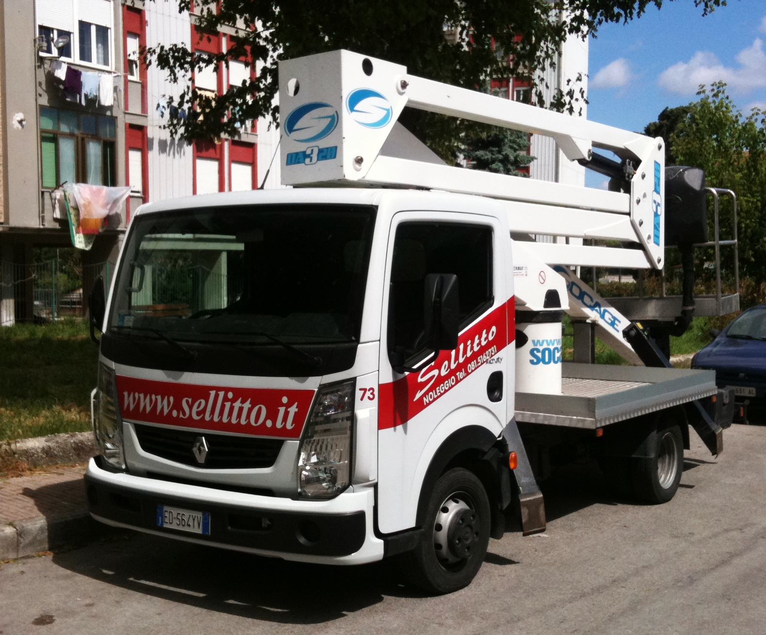 Renault Maxity in Avellino